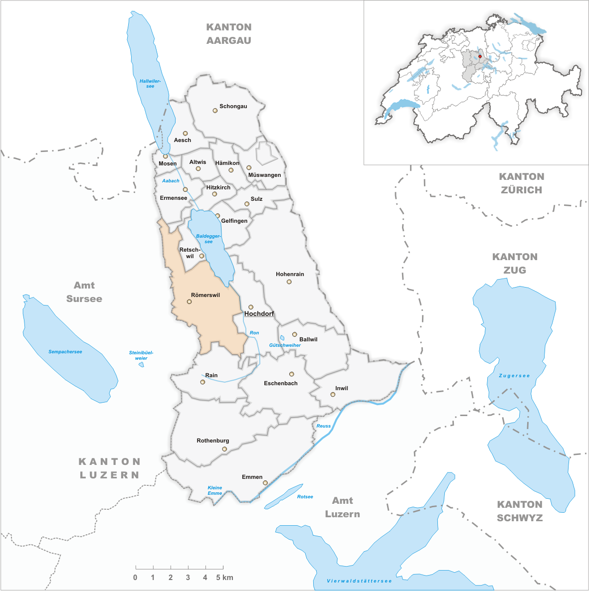 Municipality Römerswil